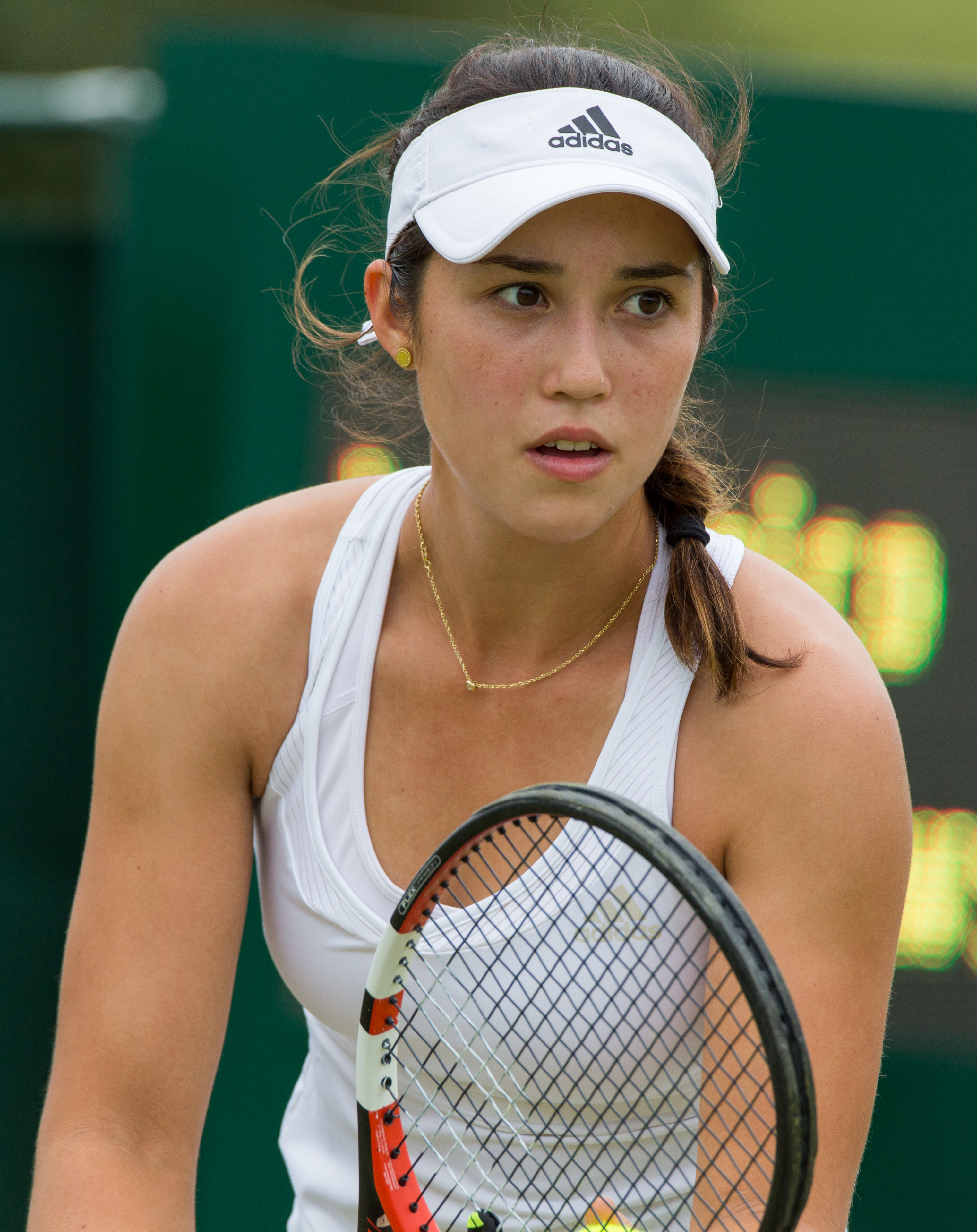 Louisa Chirico competing in the first round of the 2015 Wimbledon Qualifying Tournament at the Bank of England Sports Grounds in Roehampton, England. The winners of three rounds of competition qualify for the main draw of Wimbledon the following week.